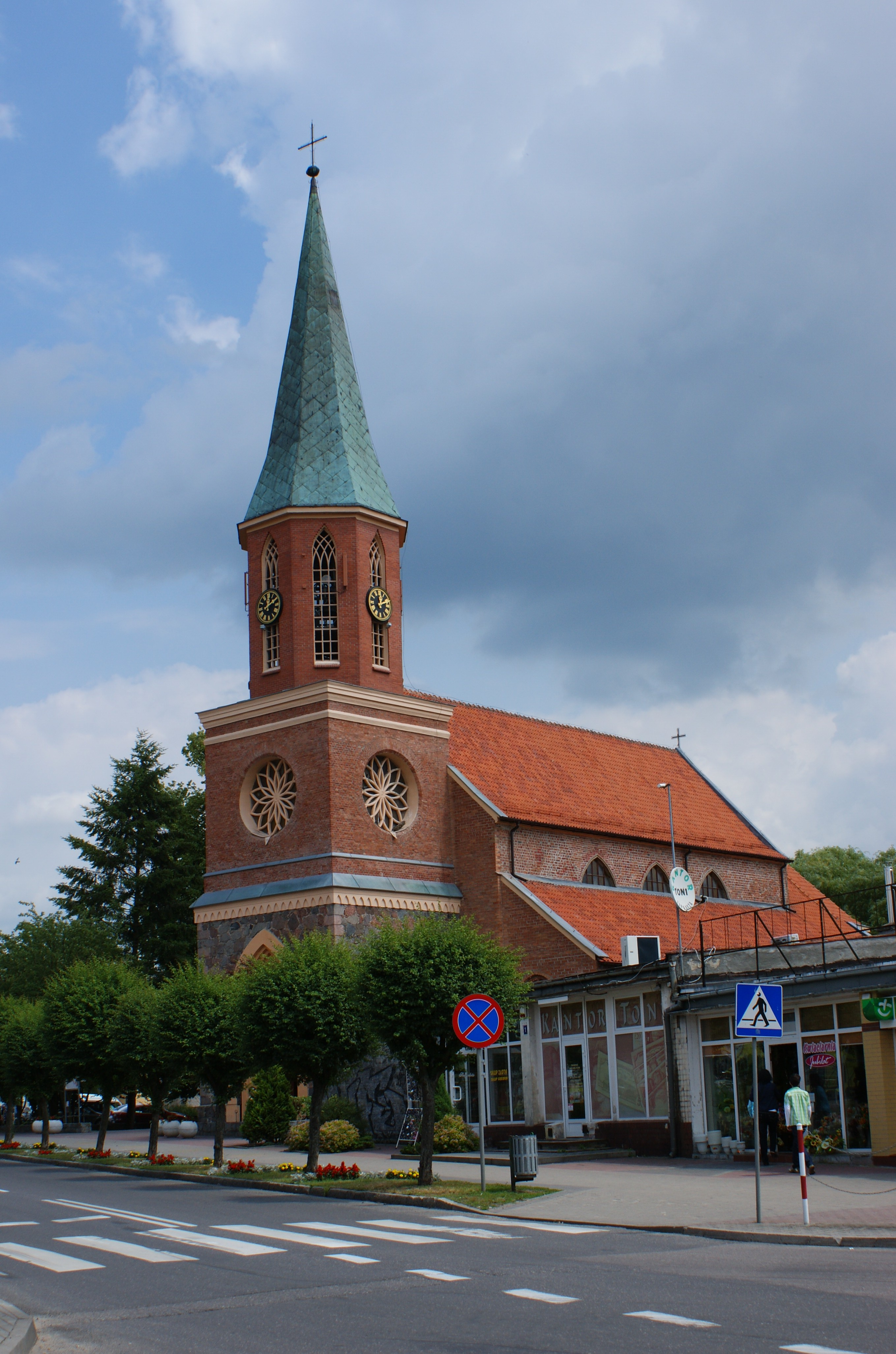 Church in Lobez, NW Poland